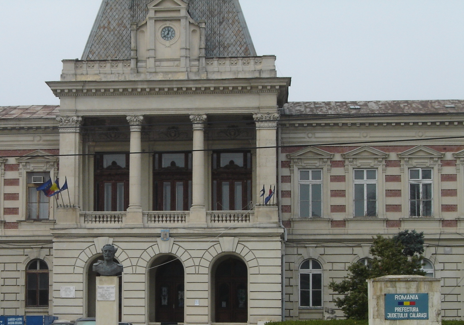 Prefectura of the Călăraşi County, Romania